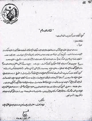 Memorandum to the Central Committee of the Communist Party of the Soviet Union (TsK KPSS) from F. Olfat, member of the Politburo of the People's Mujahedin of Iran, requesting that the TsK KPSS lend any amount of money (up to US$300,000,000) to the organization. It was sent to the Soviet Embassy in Bulgaria to be delivered in ciphered form by the Committee for State Security (KGB).